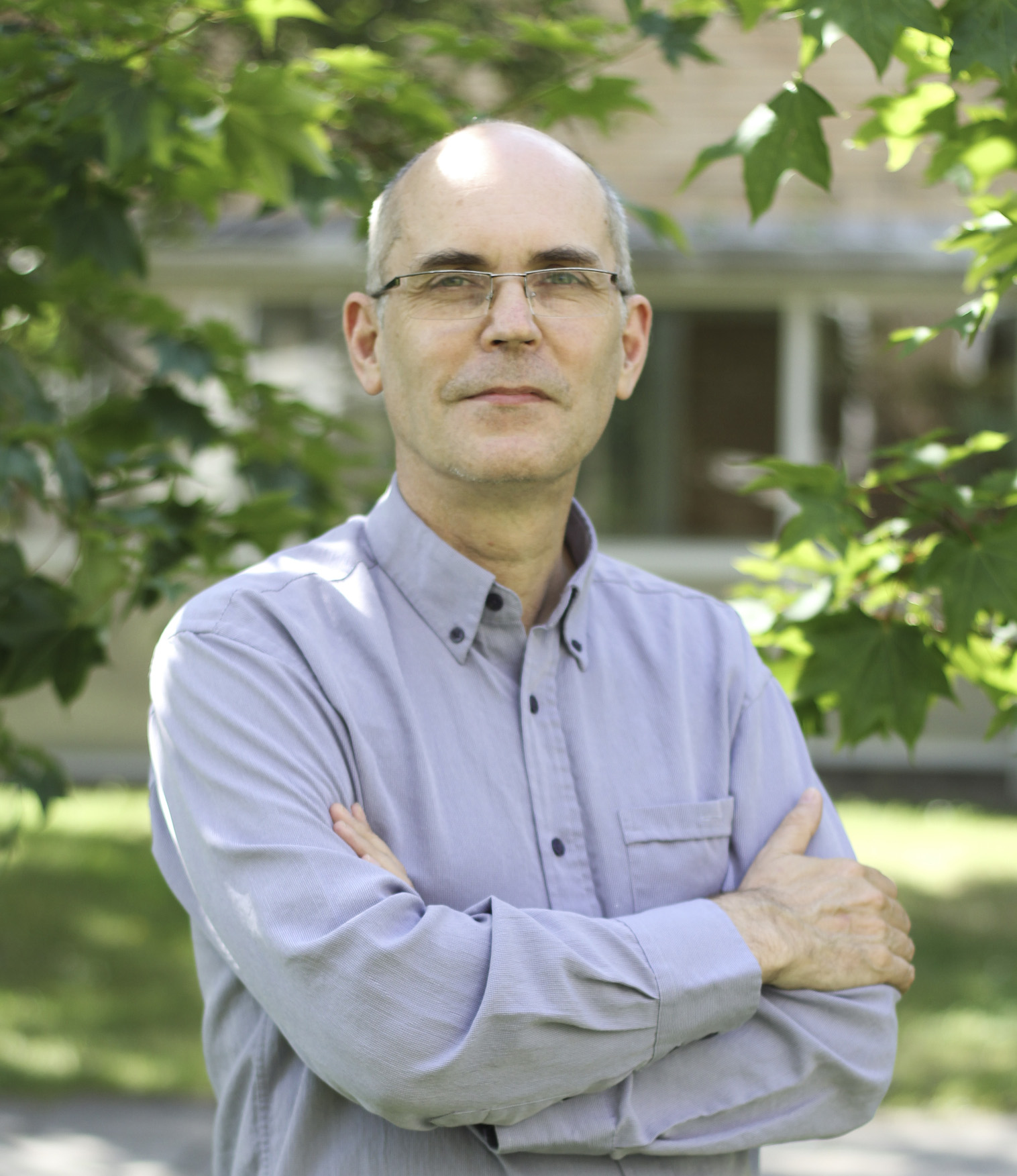 Professor Matthew Collins, University of York, UK